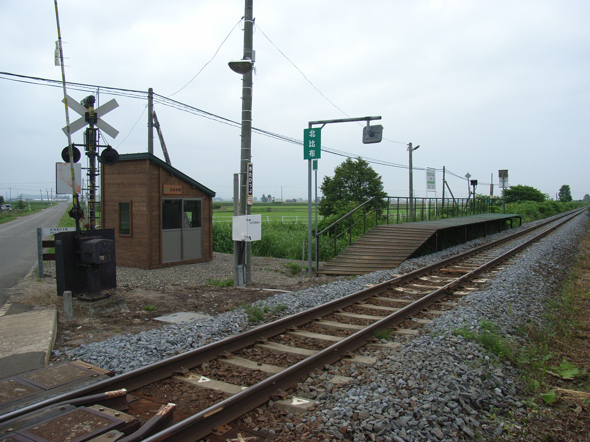 Kitapippu Station on the Soya Main Line